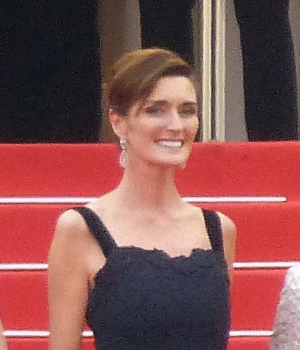 Kristie Macosko, Frank Marshall, Kathleen Kennedy, Kate Capshaw, Steven Spielberg, Ruby Barnhill, Mark Rylance, Claire van Kampen, Lucy Dahl, Penelope Wilton, Rebecca Hall and Jemaine Clement at the world premiere of The BFG, 2016 Cannes Film Festival